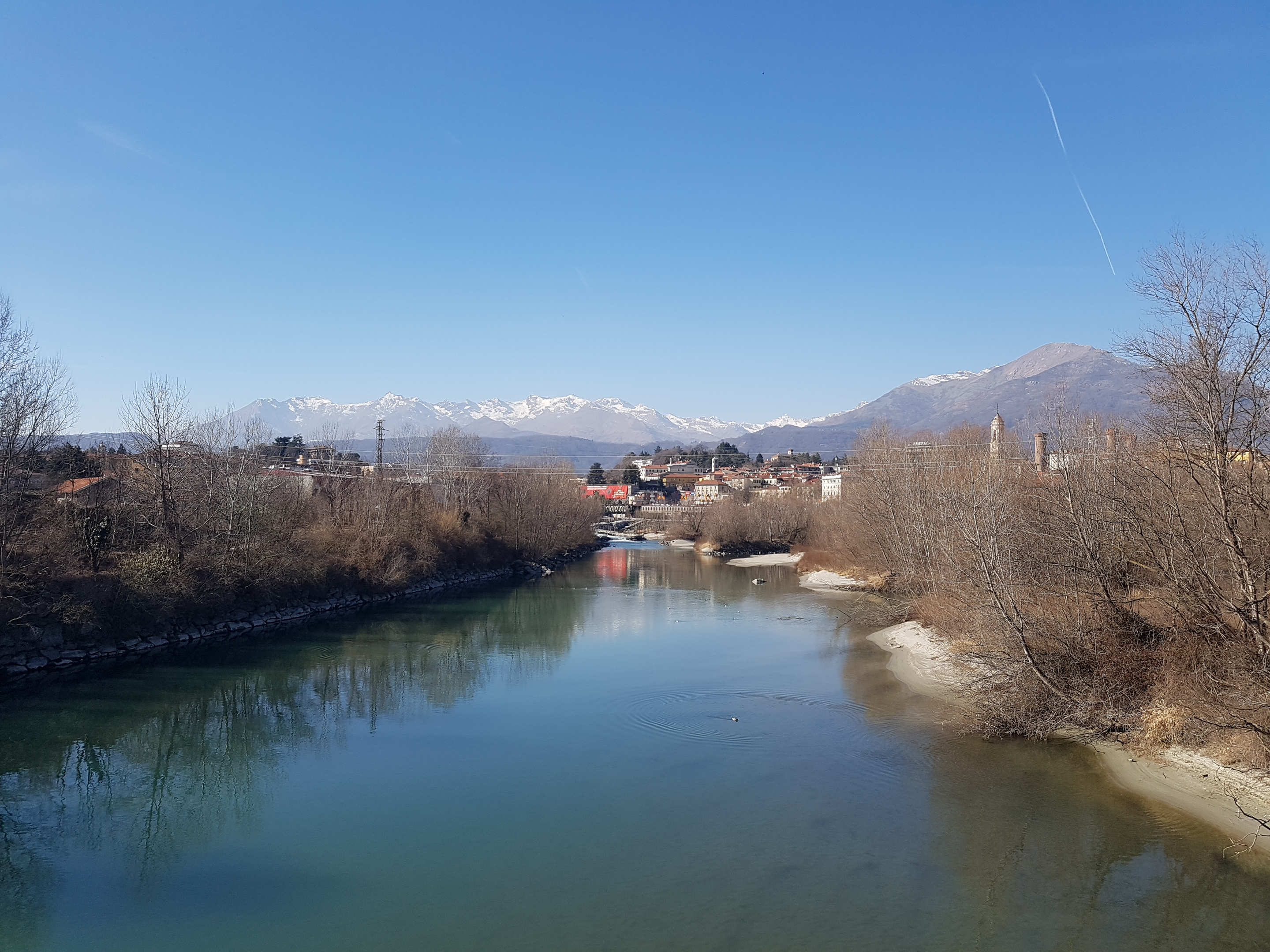 Dora Baltea River, Ivrea, Northern Italy